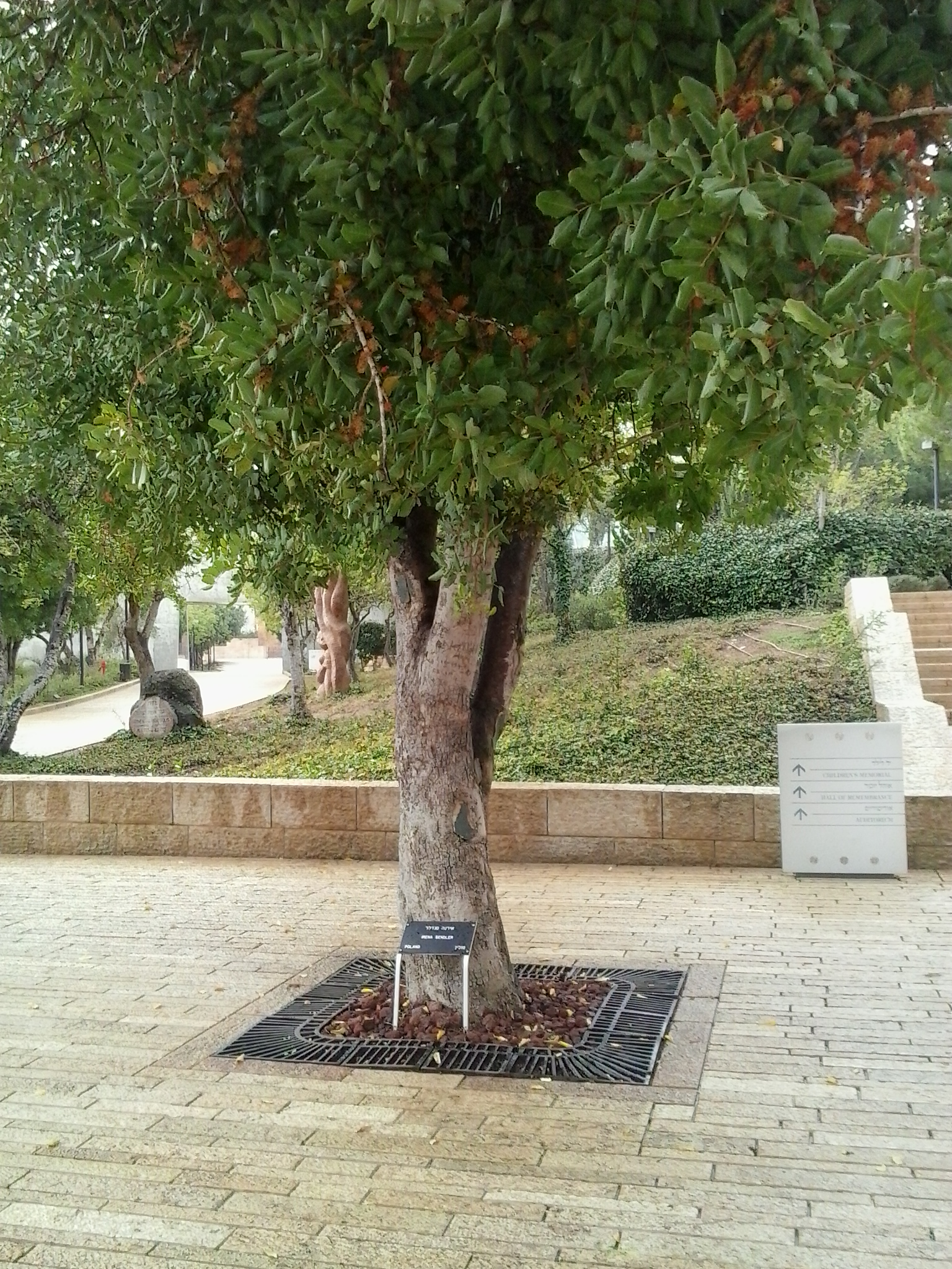 Tree, memorial honoring Irena Sendler (Polish Roman Catholic nurse who saved 2,500 Jews when it was forbidden during the Holocaust, crime by Nazi Germany) in Jerusalem, Israel (The Garden of the Righteous Among the Nations, Yad Vashem).